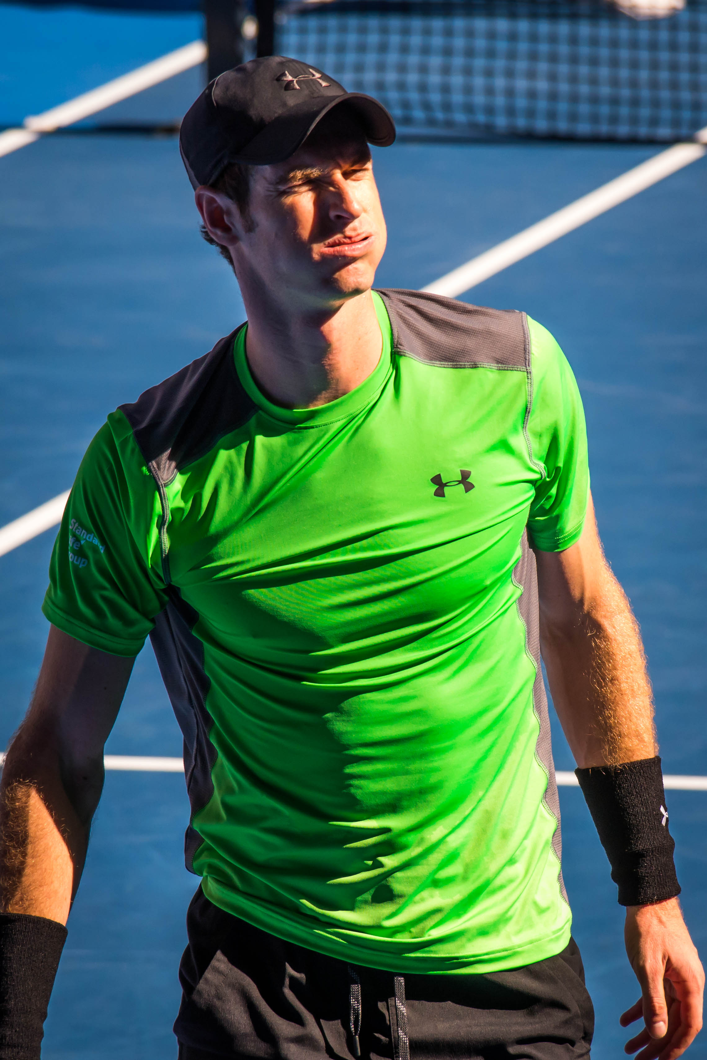 Andy Murray (GBR)[6] during his 3rd round straight-sets win over Joao Sousa (POR) at the 2015 Australian Open in Hisense Arena.